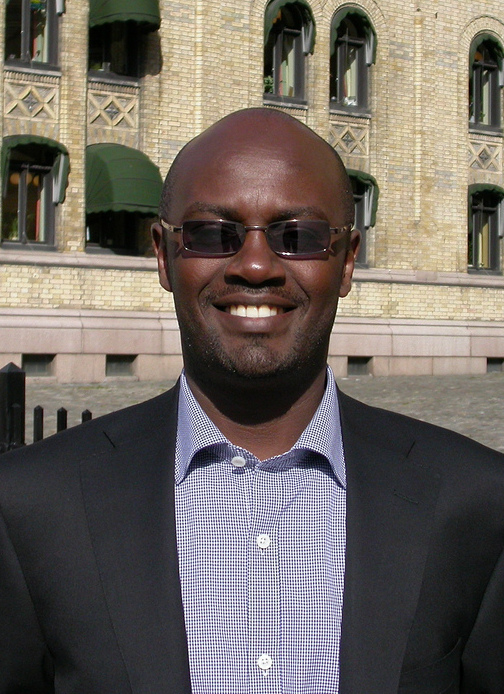 Andrew Mwenda in front of the Norwegian parliament.